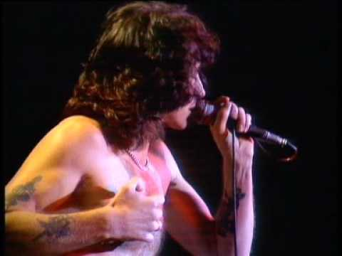 Bon Scott photography.